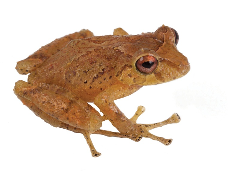 Cropped and edited by File:Pristimantis yanezi.jpg